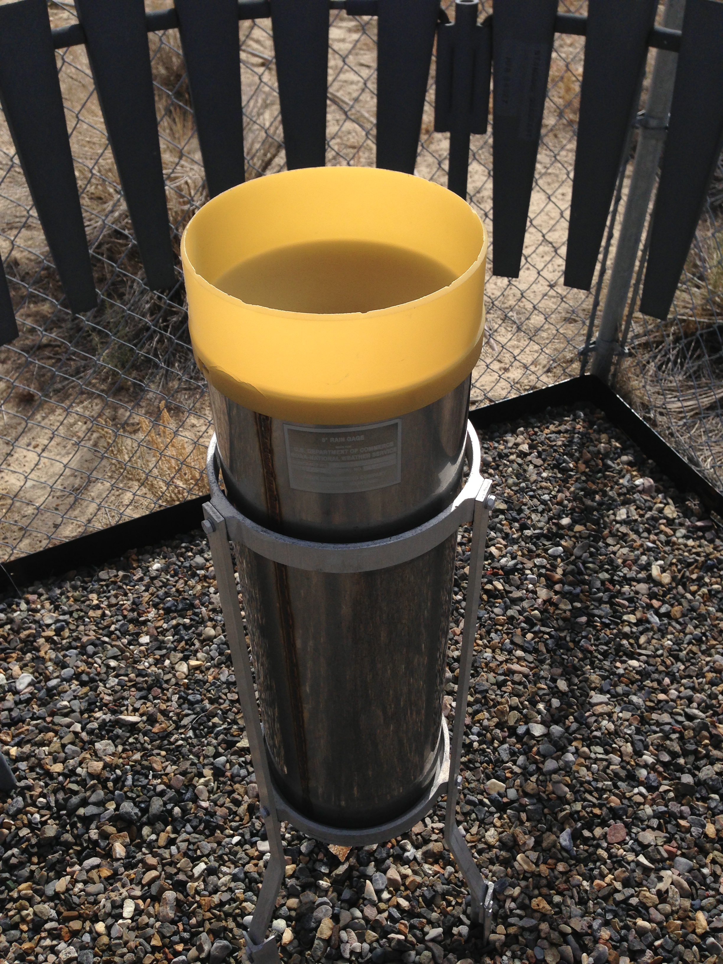 National Weather Service Standard Rain Gauge